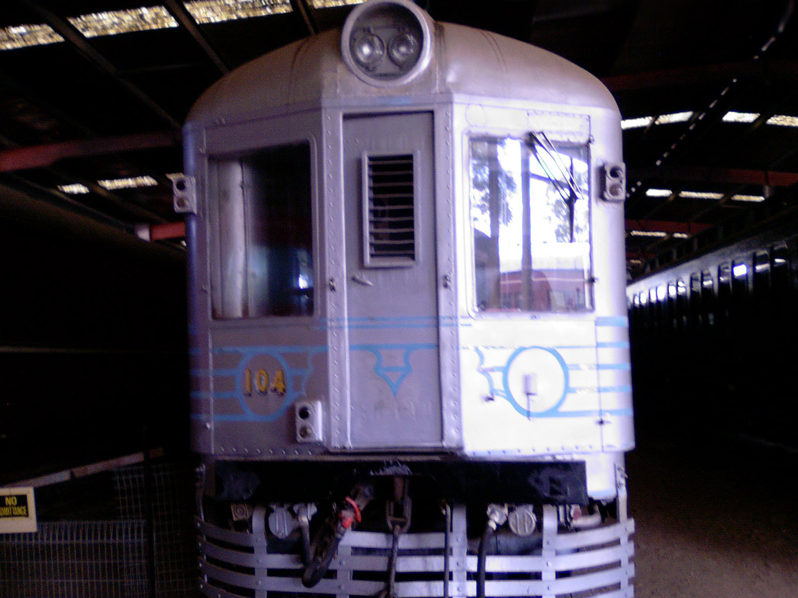 Own picture, Preserved Silver City Comet at NSW Rail Transport Museum in Thirlmere NSW.